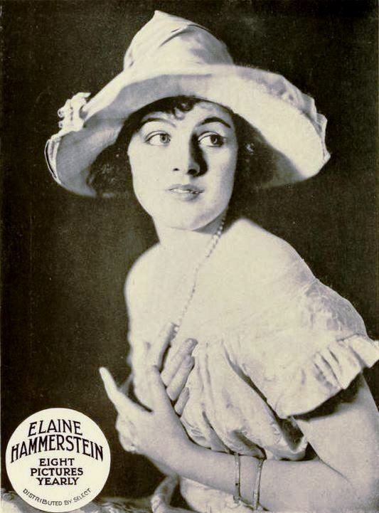 Actress Elaine Hammerstein, from an ad promoting her films in the insert after page 1721 of the June 21, 1919 Moving Picture World.